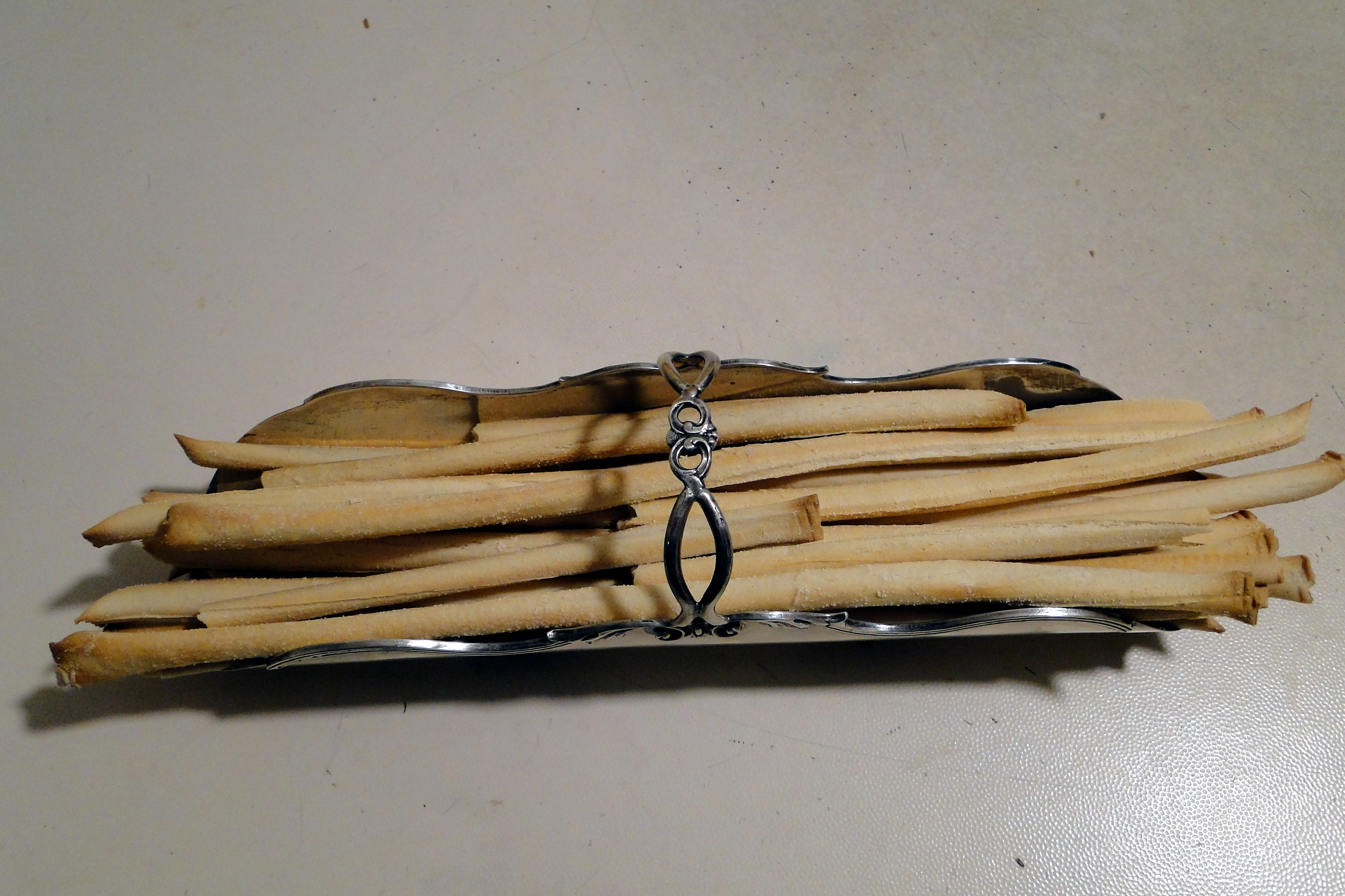 "Grissini stirati" of Turin (Italy) in a proper case tu be served at table